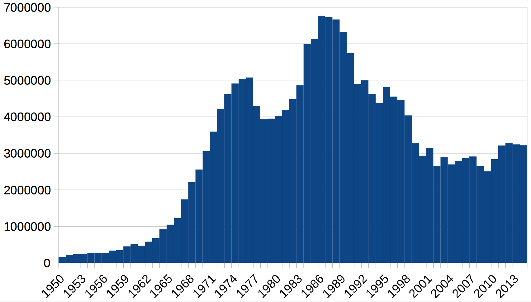 Global fisheries capture of the Alaska pollock, Theragra chalcogramma, in tonnes from 1950 to 2010 as reported by the FAO. Data source FAO fisheries